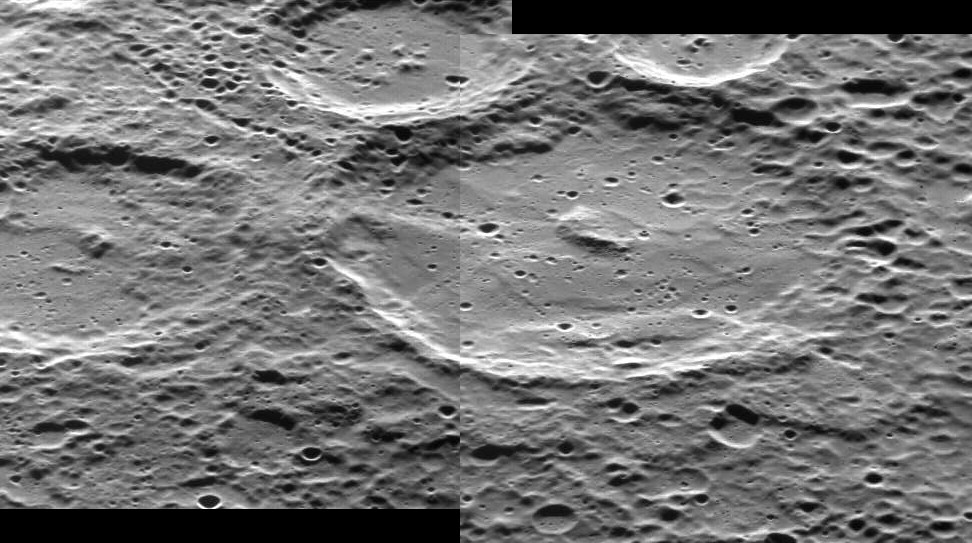 Oblique view of Chu Ta crater on Mercury. MESSENGER Narrow Angle Camera mosaic. North is to the right. Width is about 168 km. Statistics for right image are: Emission Angle: 56.1 Incidence Angle: 75.1 Latitude: 2.5 Longitude: 255.0 Phase Angle: 131.2